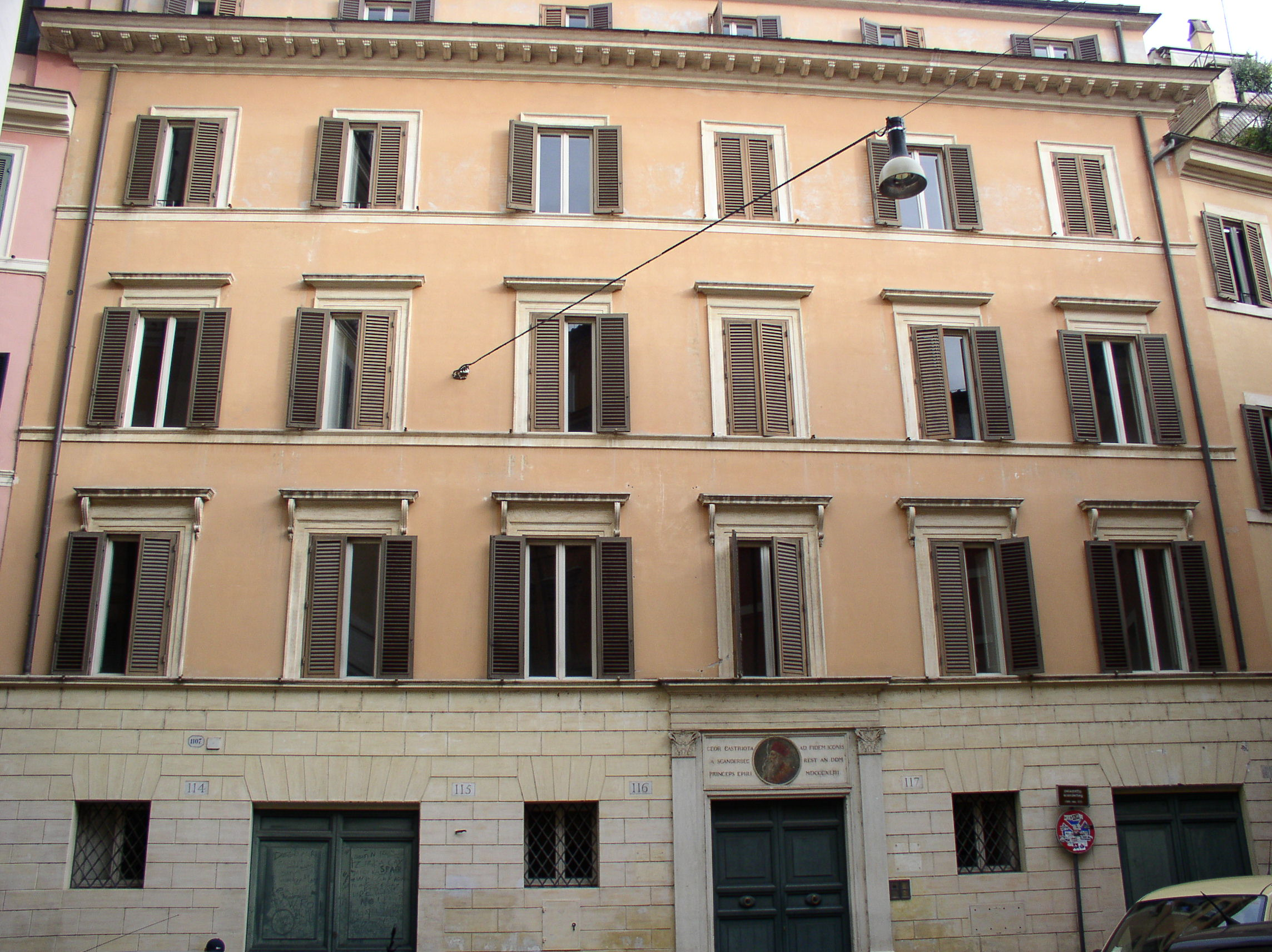 Skanderbeg Pallace in Rome